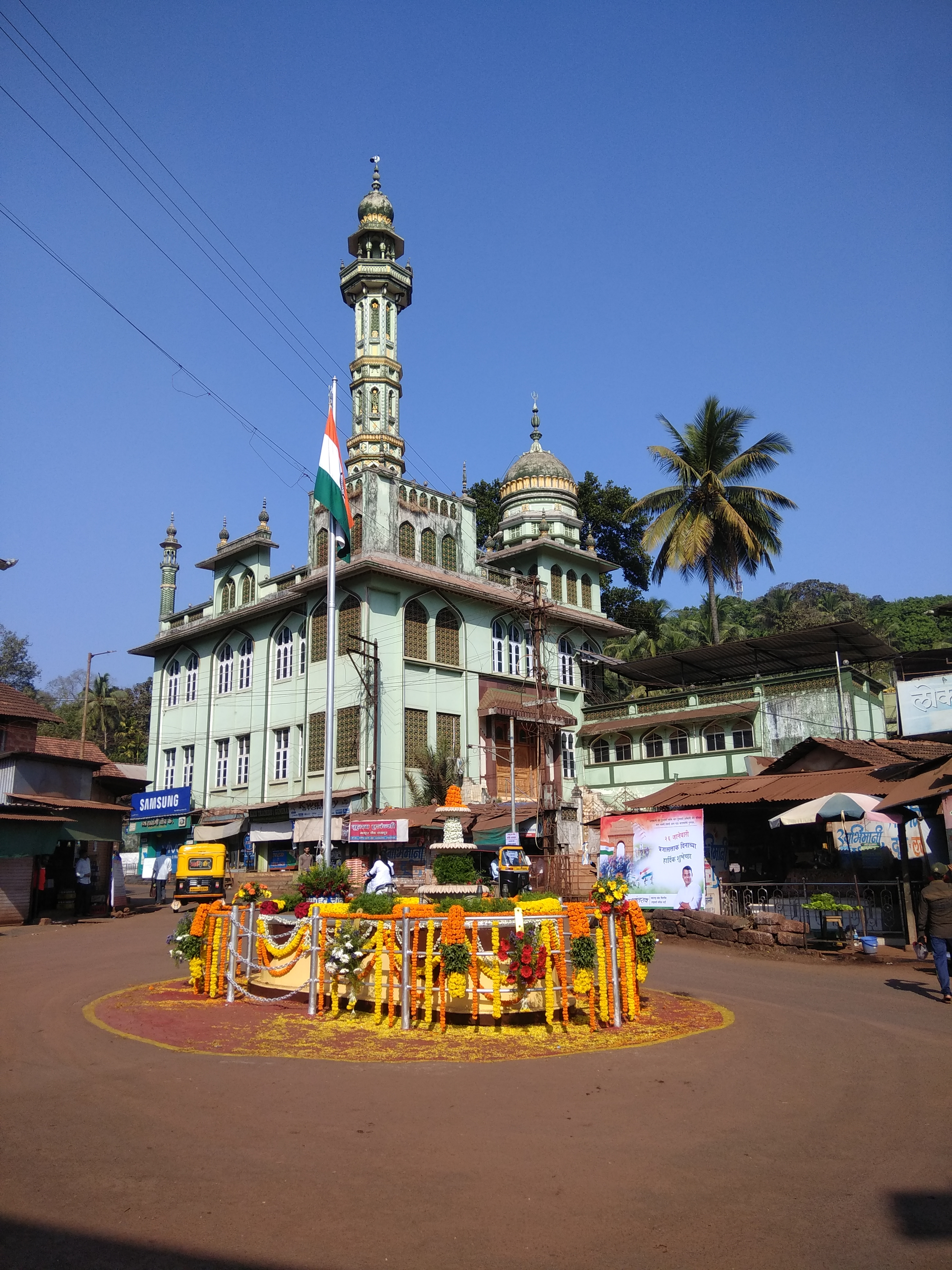 Flag of Republic Day of India celebration at town Rajapur District Ratngairi